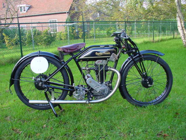 Toestemming van Yesterdays Antique Motorcycles ( categorie:afbeelding motorfiets